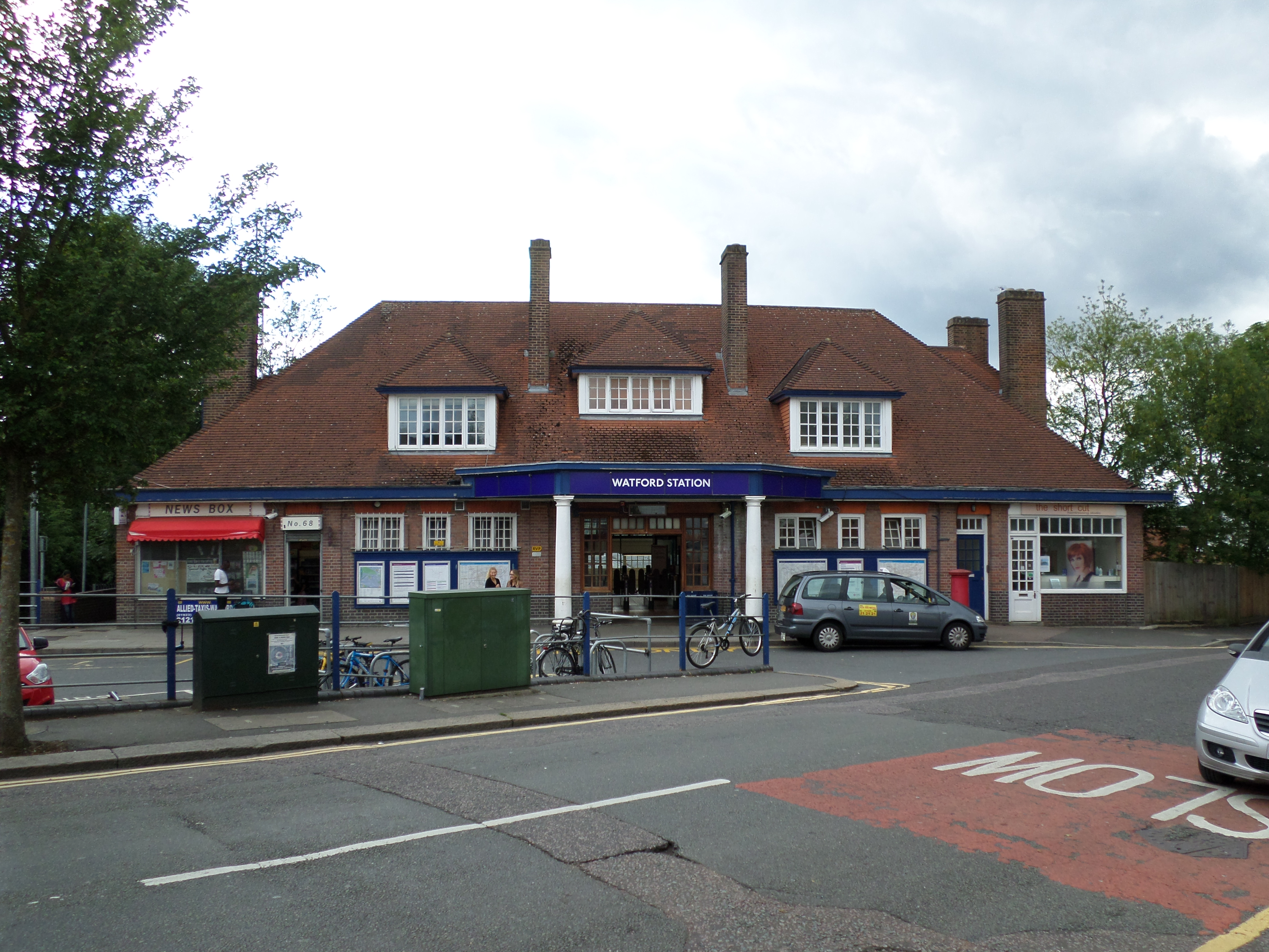 Watford Met